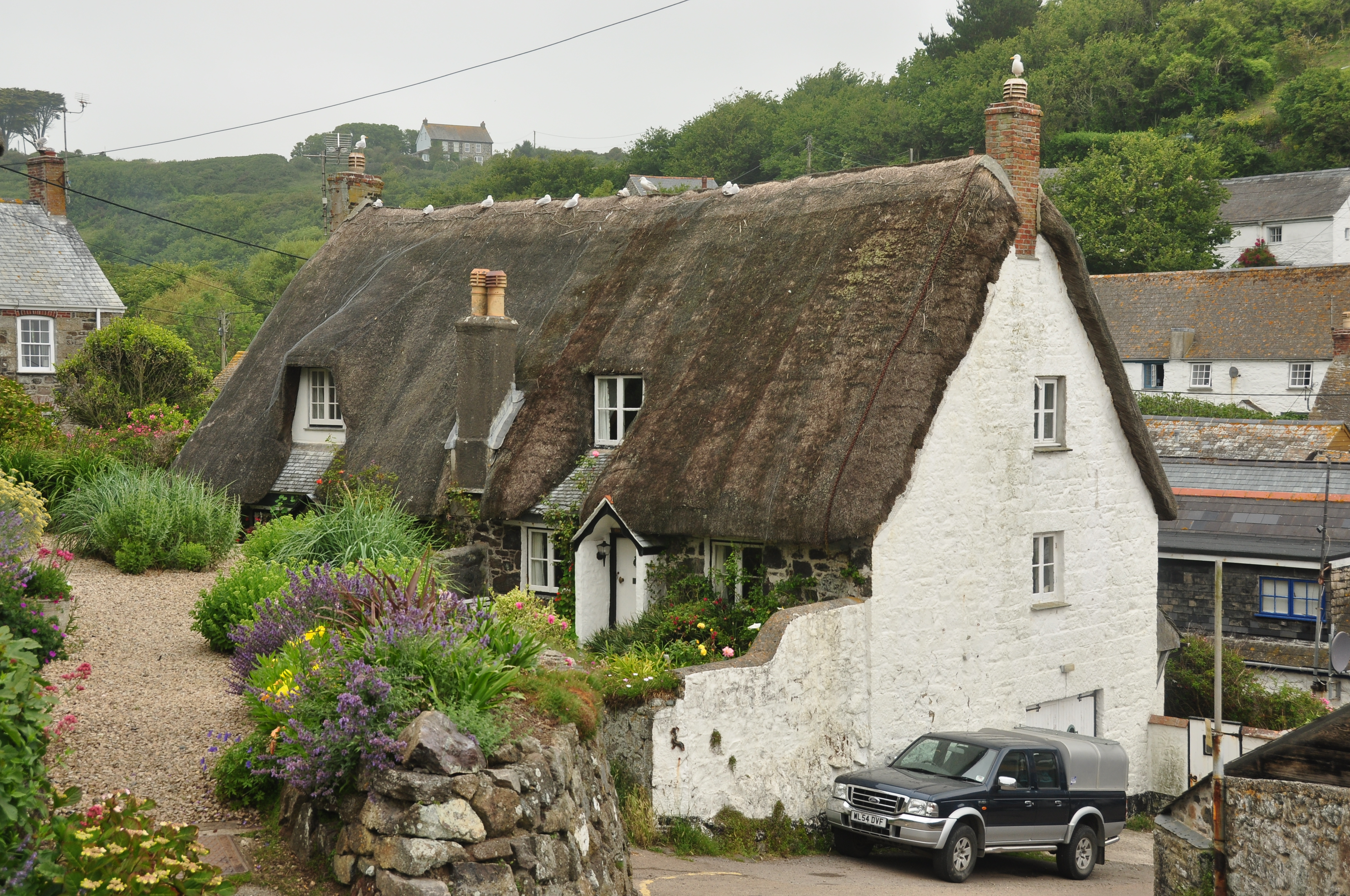 Thatched cottage in Cadgwith